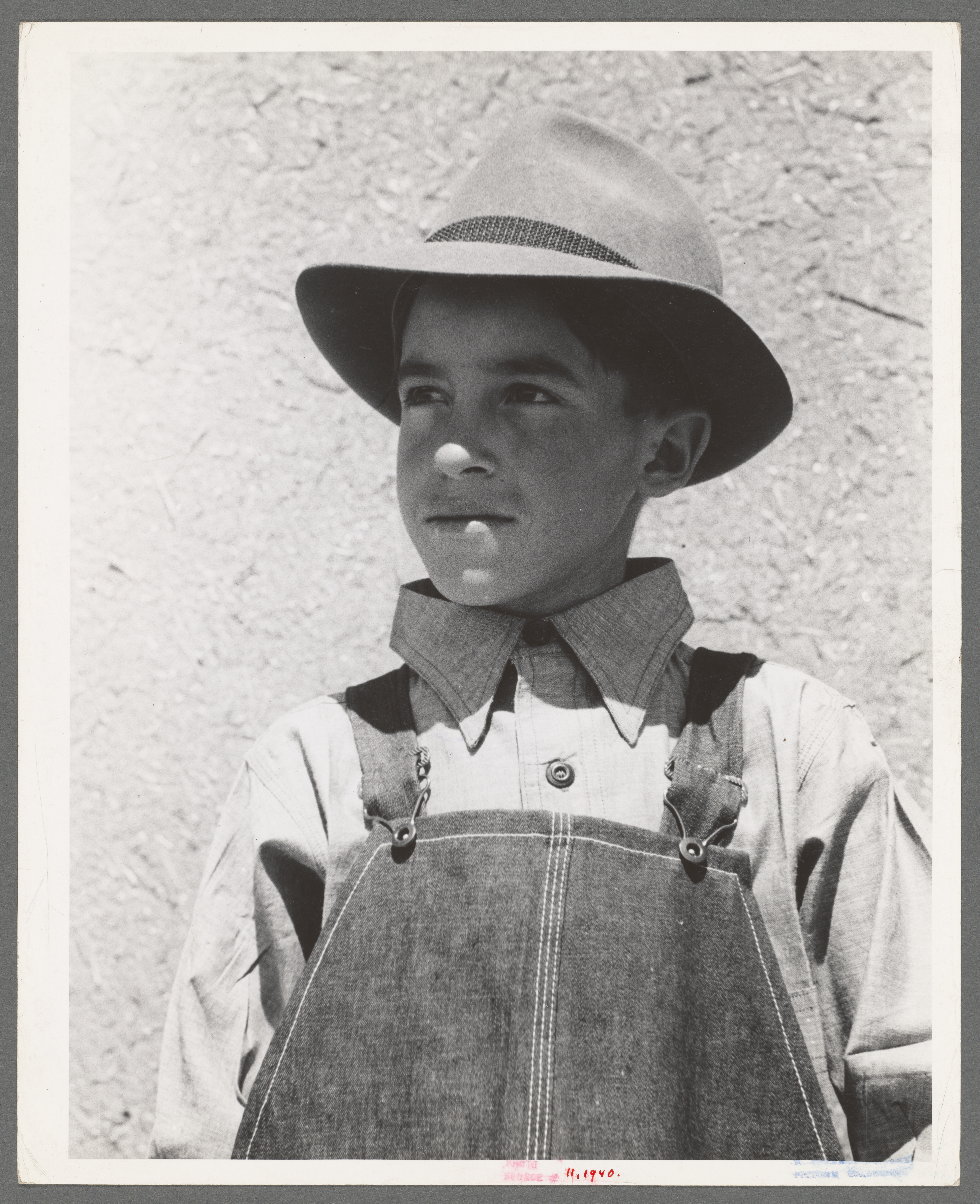 TMS ID: 63736 TMS Object Number: 012836-M4 Universal Unique Identifier (UUID): 12ed9d80-f290-0136-4745-006d5edf7e32